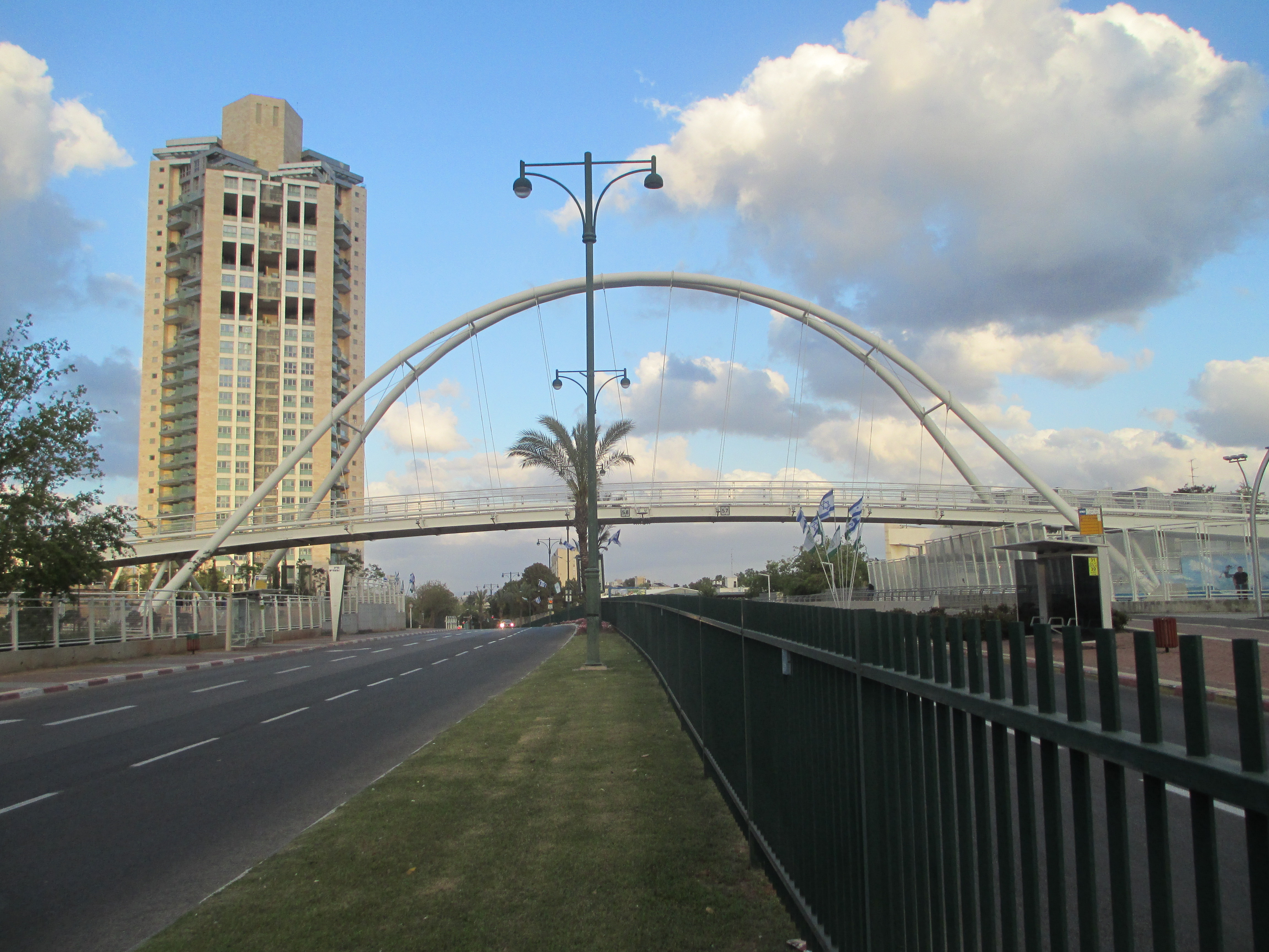 Giv'atayim Bridge